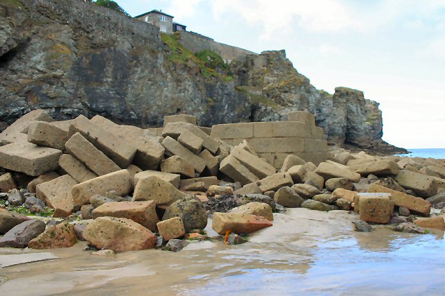 Remains of former harbour at Trevaunance Cove. Located on the west side of the bay, this harbour was built in 1798. It enabled the development of a pilchard fishery and the import and export of coal and ore. The harbour stood for 118 years but due to lack of maintenance was demolished in the storms of 1915/16. Many of the rectangular stones can be seen, but only one corner of the harbour is still standing.